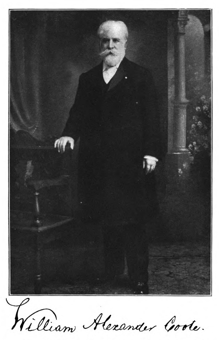 william A. Coote the Head of the National Vigilance Association